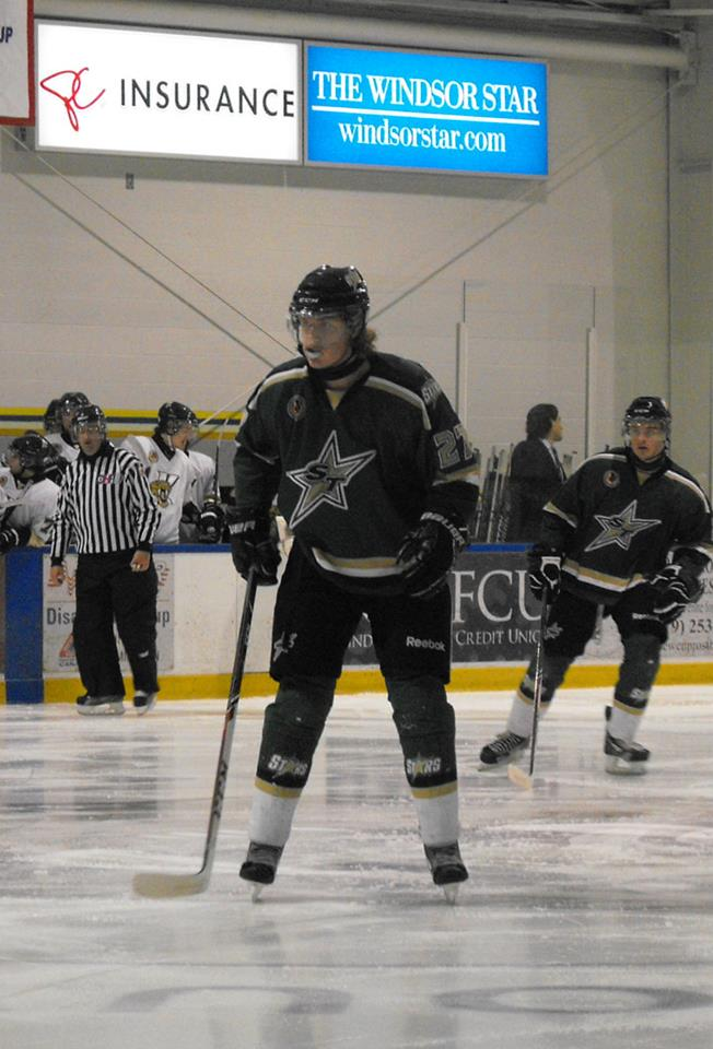 This photo was taken by Devan Mighton during the 2013-14 GOJHL season.